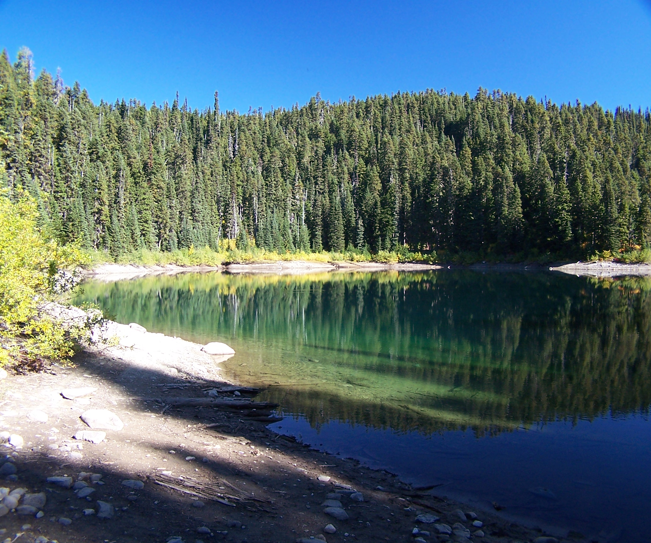 Barrier Lake from trail to Garibaldi Lake. British Columbia, Canada